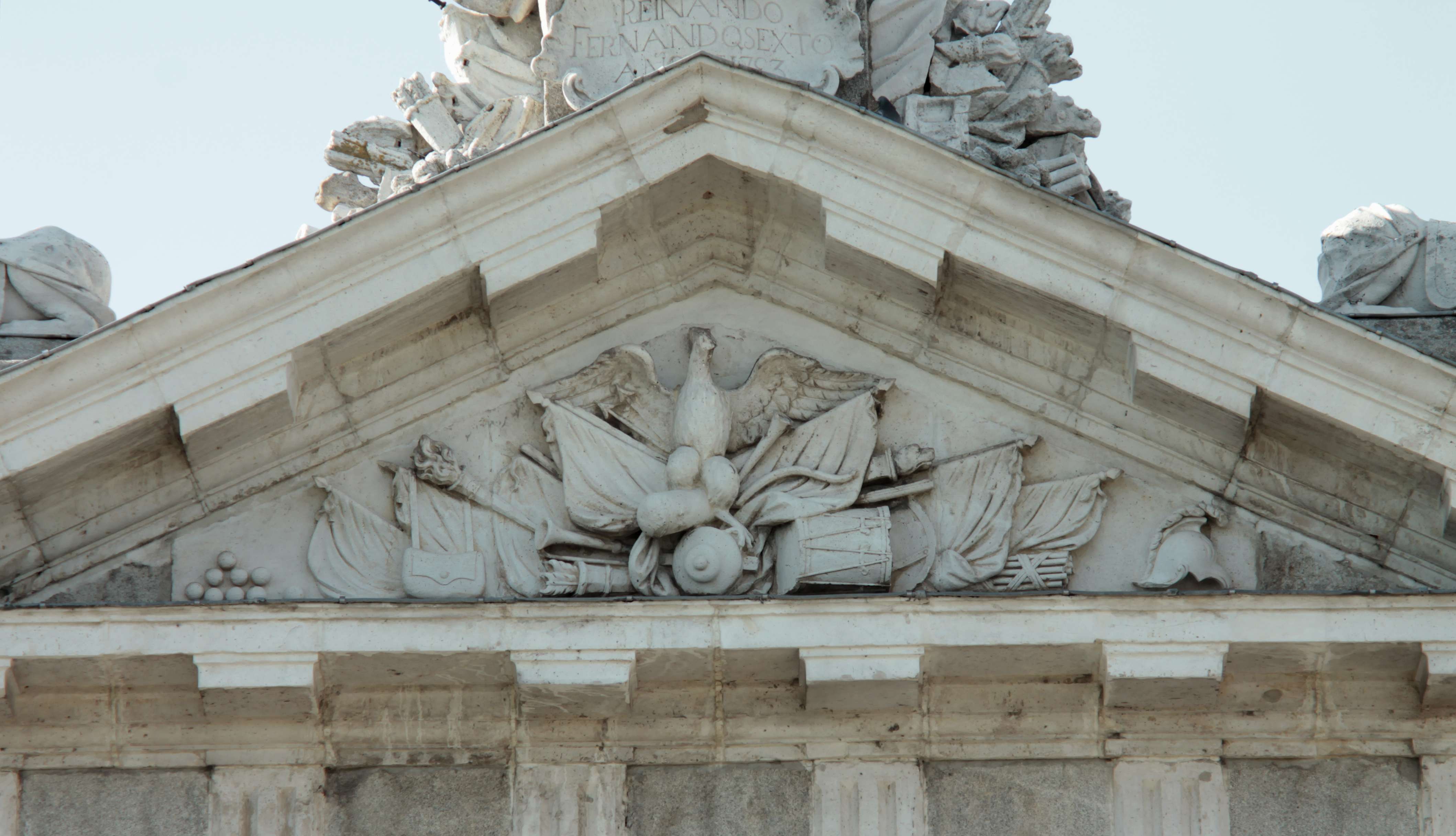 South tympanum of Puerta de Hierro.